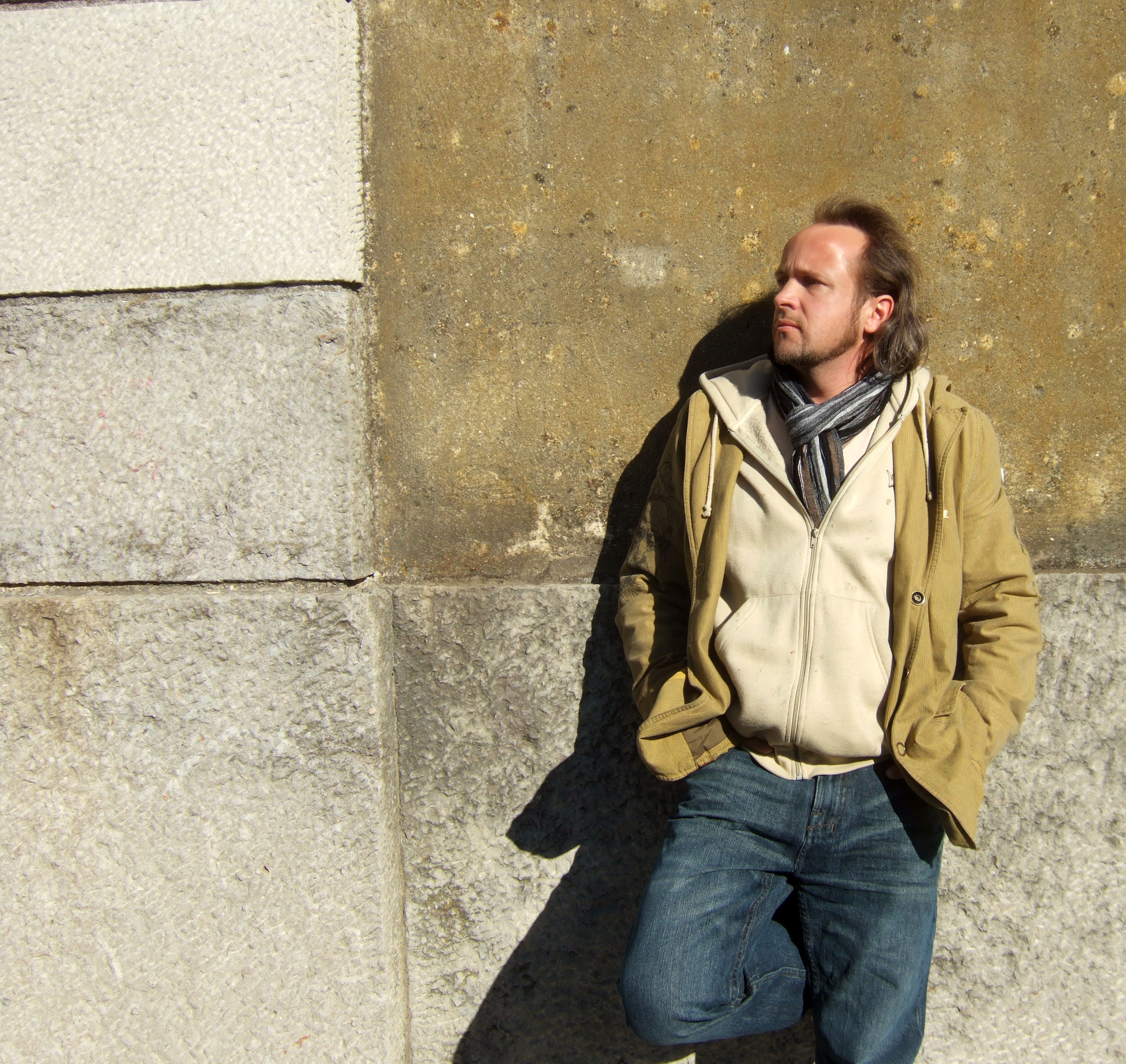 Mueller TASSO Jens